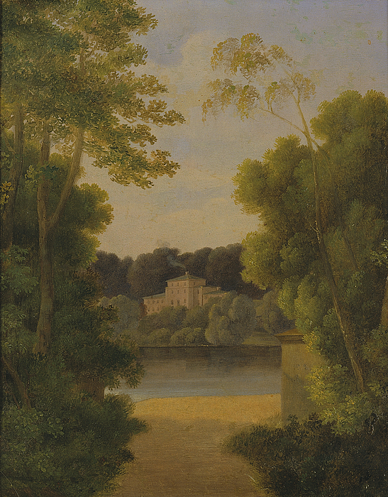 Painting of Sophienholm, a former country house and current art gallery north of Copenhagen, Denmark